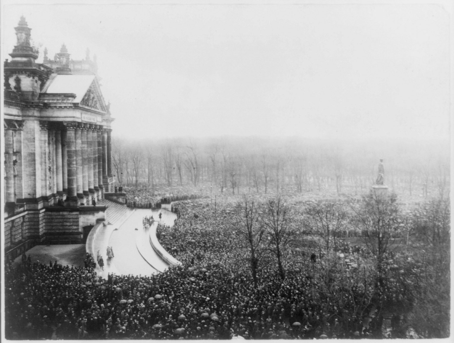 Title: Demonstrations on the re-opening day of the National convent, the 13th of January (in front of the Reichstag) by the Central Communistic Organization to block the law of the "workmen council" Abstract/medium: 1 photographic print.